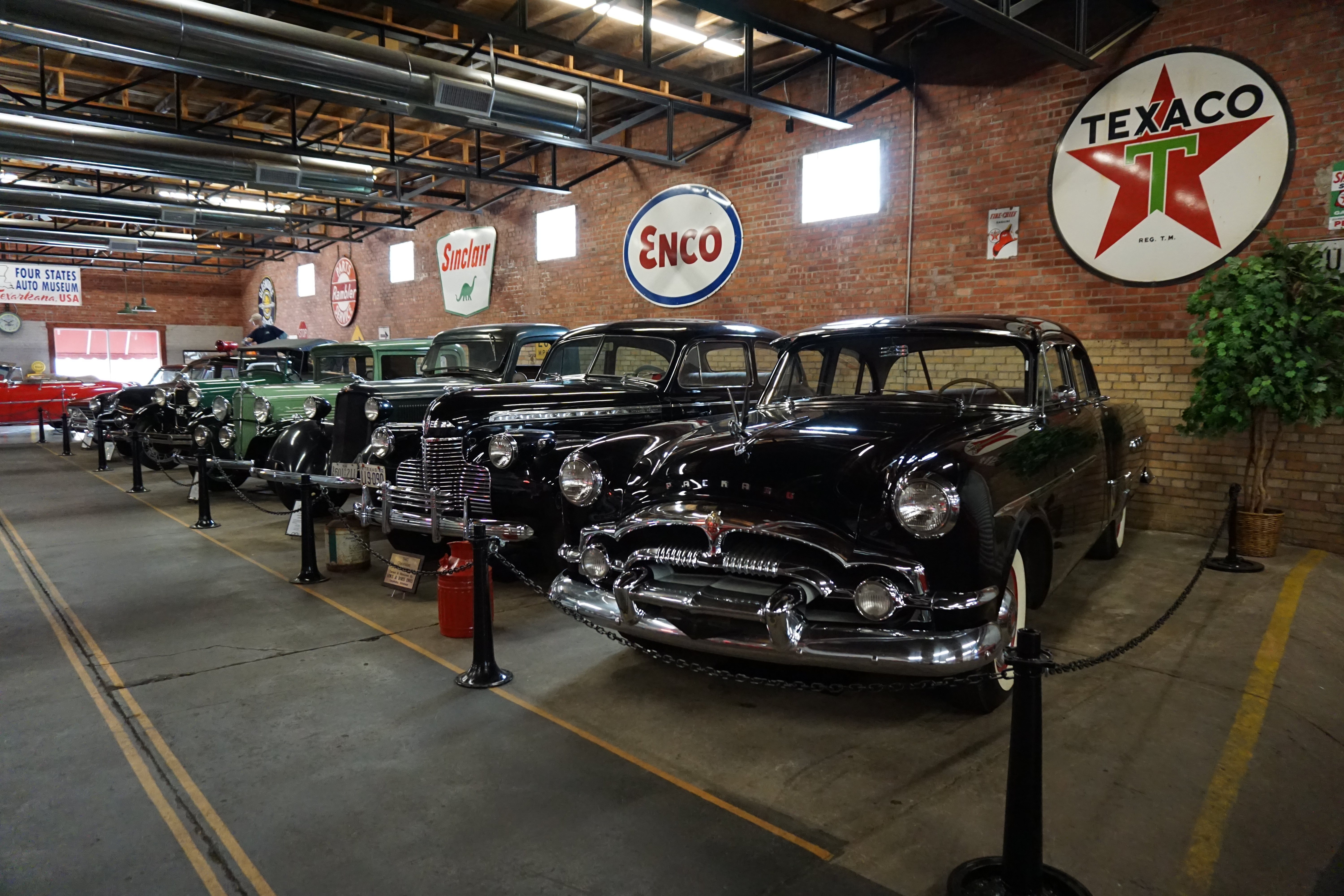 The interior of the Four States Auto Museum in Texarkana, Arkansas (United States).